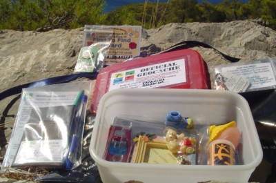 Cache